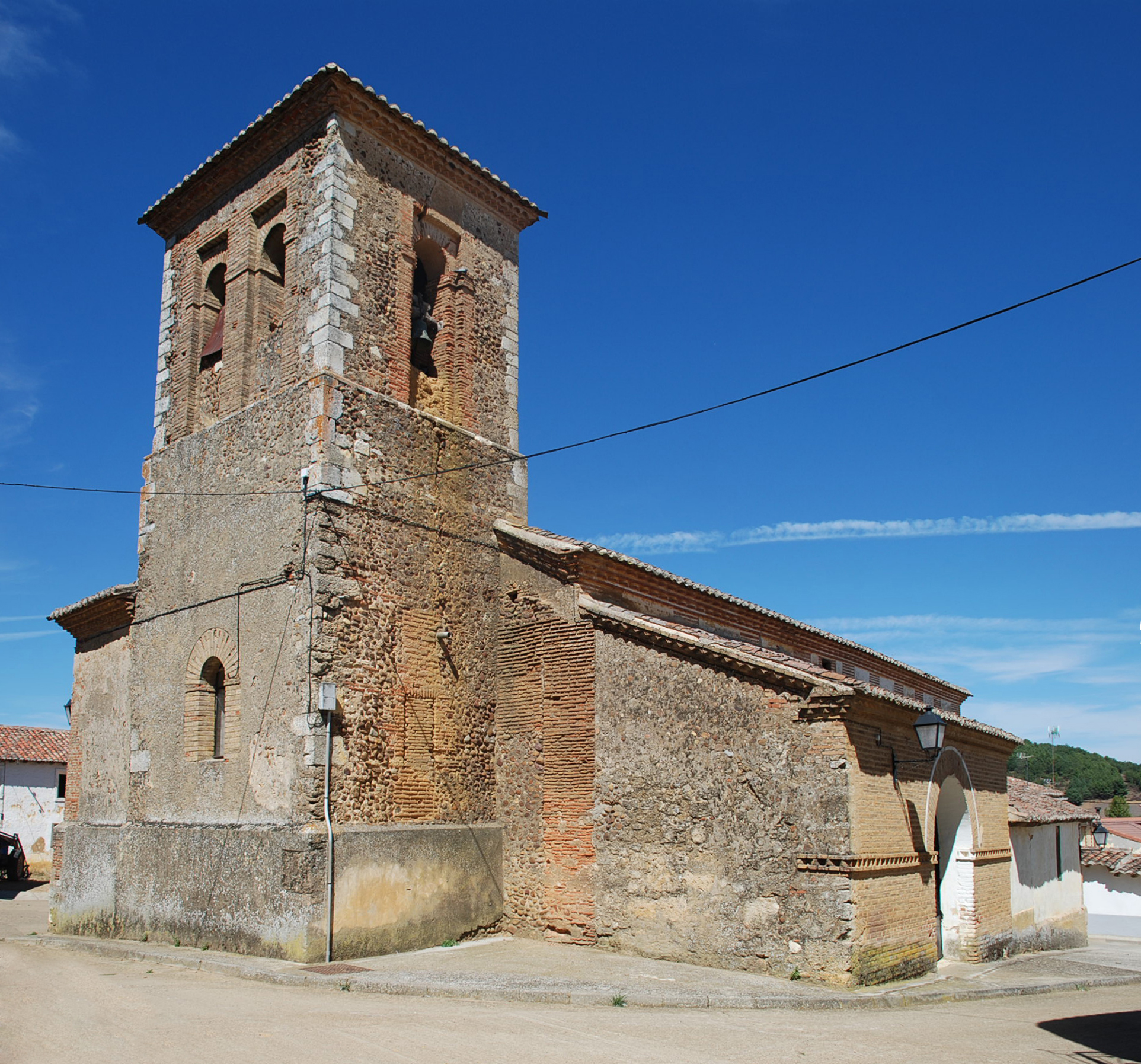 Church of Saint Roman in Valles de Valdavia (Palencia, Castile and León).